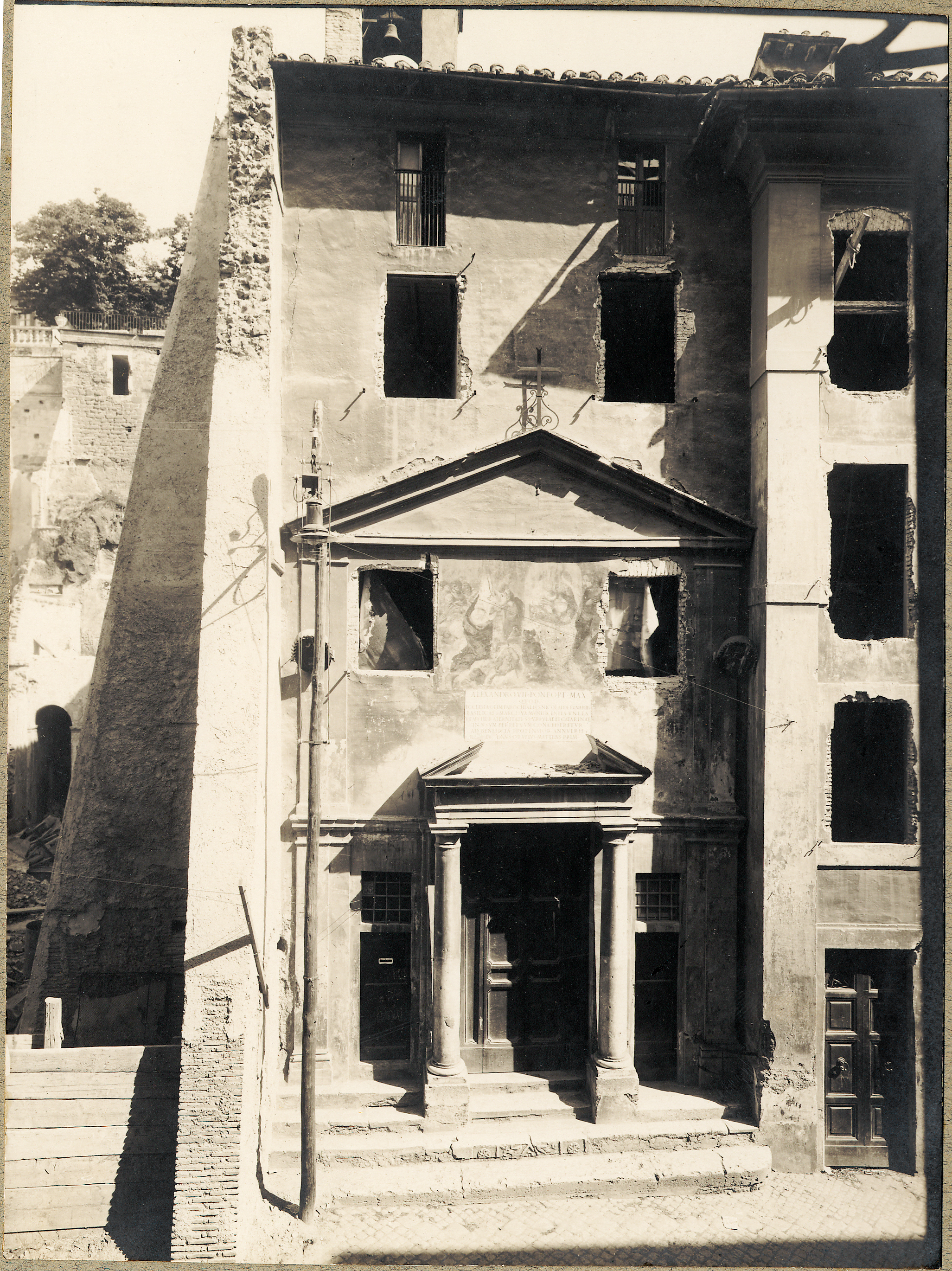 Chiesa distrutta dei Sante Orsola e Caterina